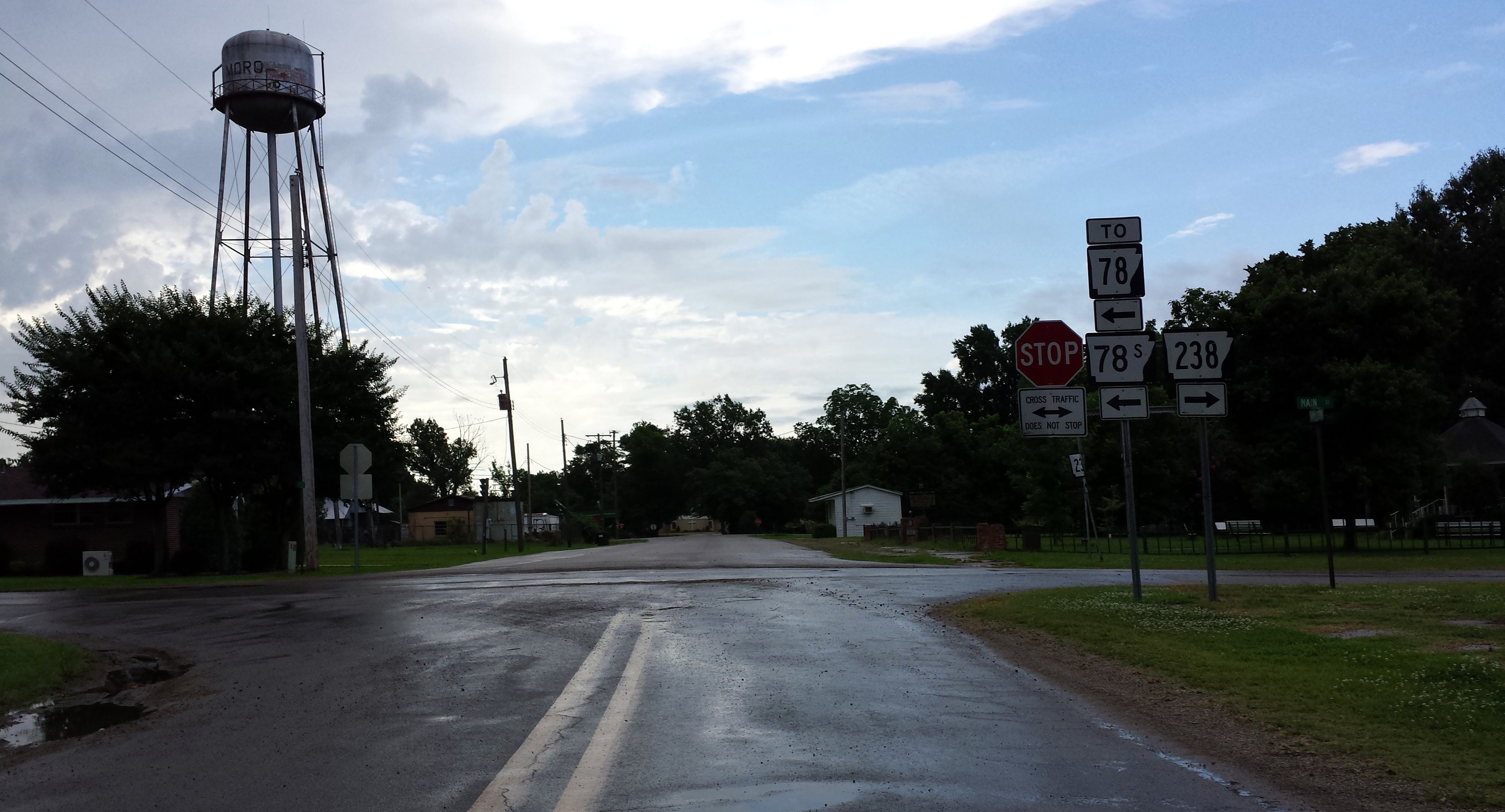 Highway 78 enters Moro, AR